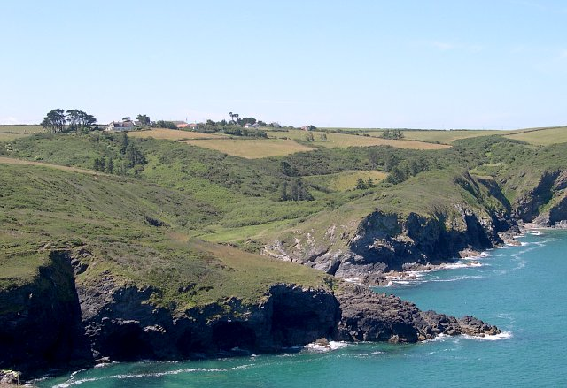 Lundy Hole.